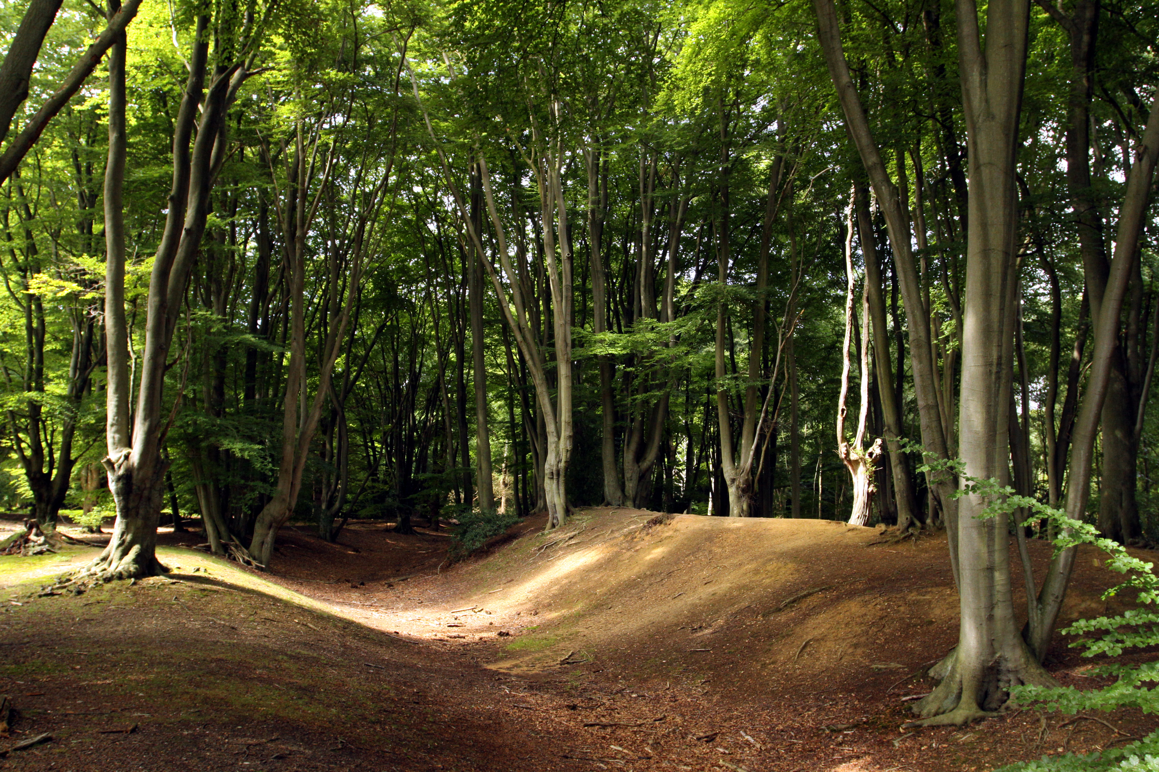 Ambresburg Banks (or Ambresbury Banks) in Epping Forest in London, England, Great Britain.